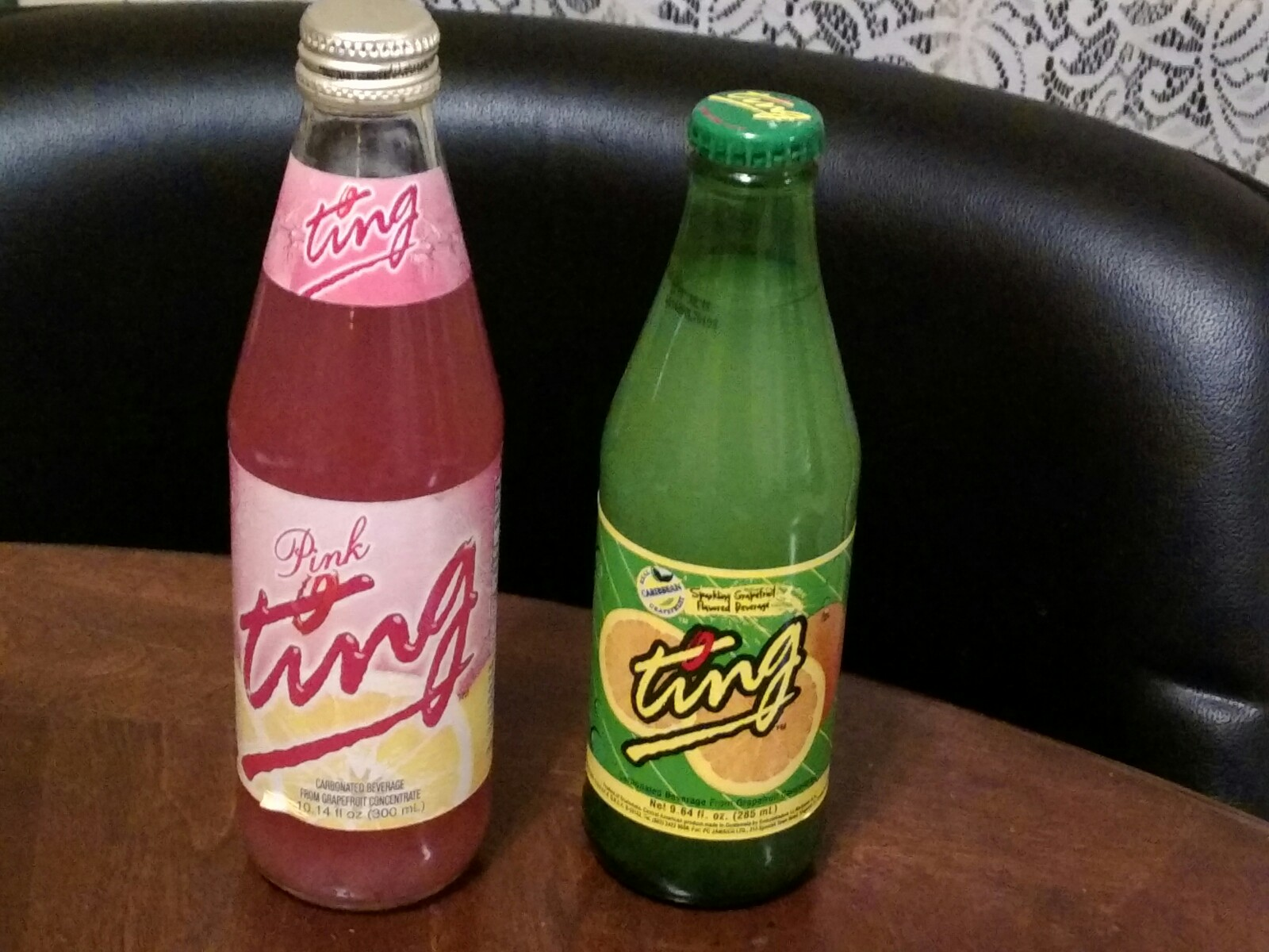 A Ting and a Pink Ting, grapefruit soft drinks popular in Jamaica. The Ting (green) was bottled in Guatemala, while the Pink Ting was bottled in Canada. They were purchased in the southeast United States